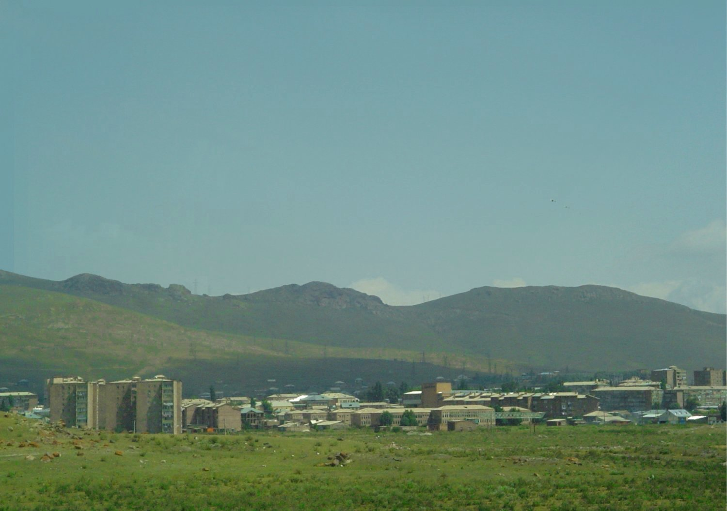 Sevan city in Armenia as seen from road